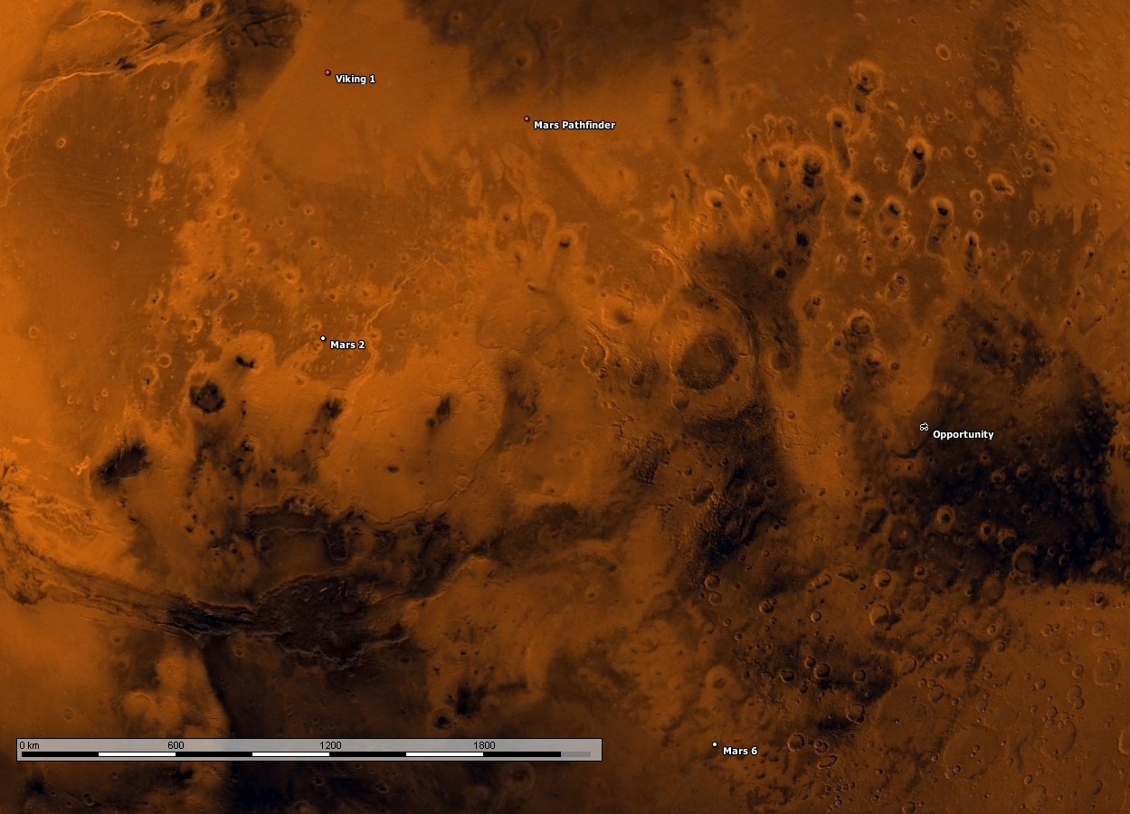 Map of Mars from the Marble program. Shows the locations of Viking 1, Mars 2, Mars Pathfinder, Opportunity and Mars 6. Scale bar is in km. Cropped using GIMP. Uses public domain info from NASA, further info contributed by the Marble team.